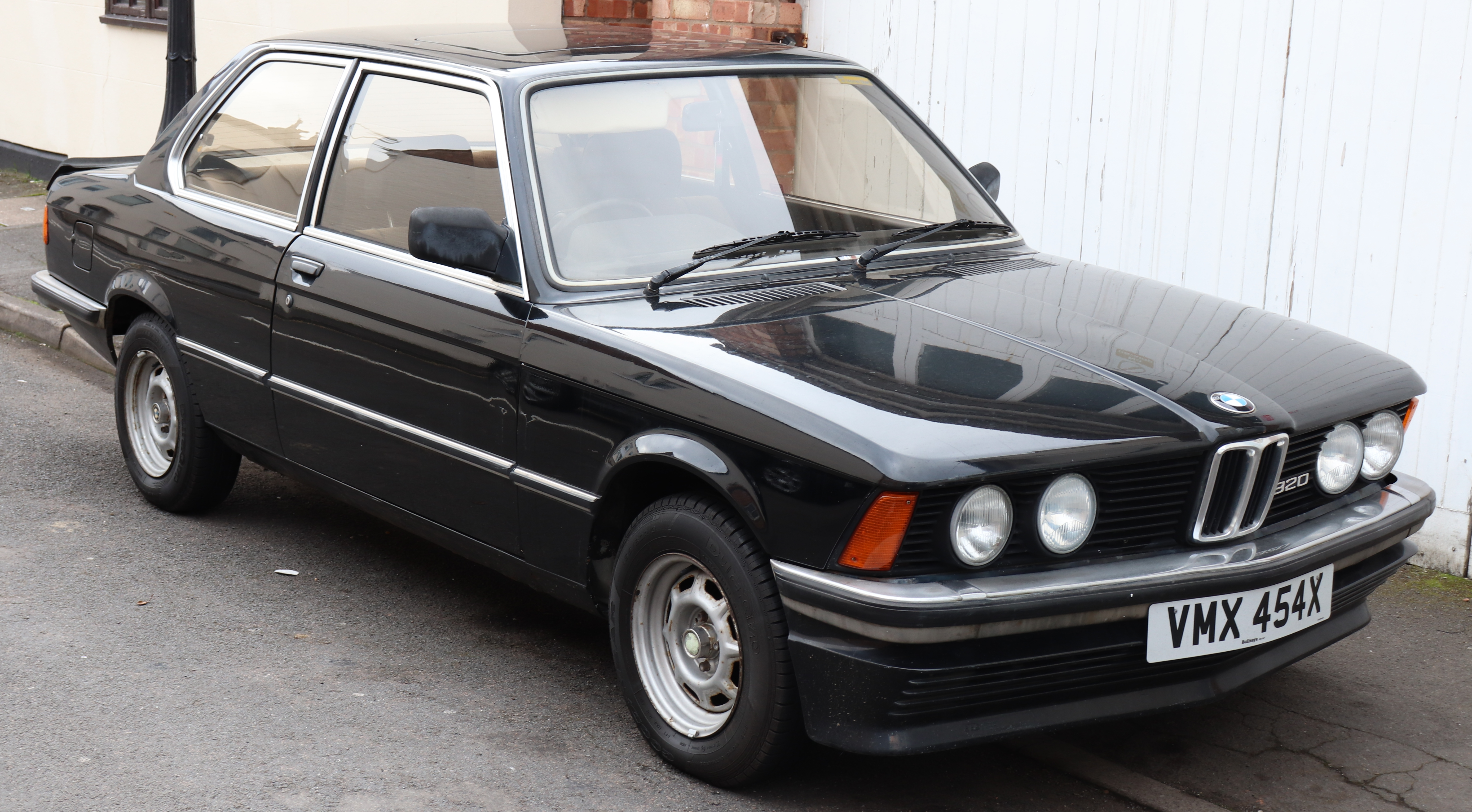 1981 BMW 320 2.0 Front Taken in Leamington Spa